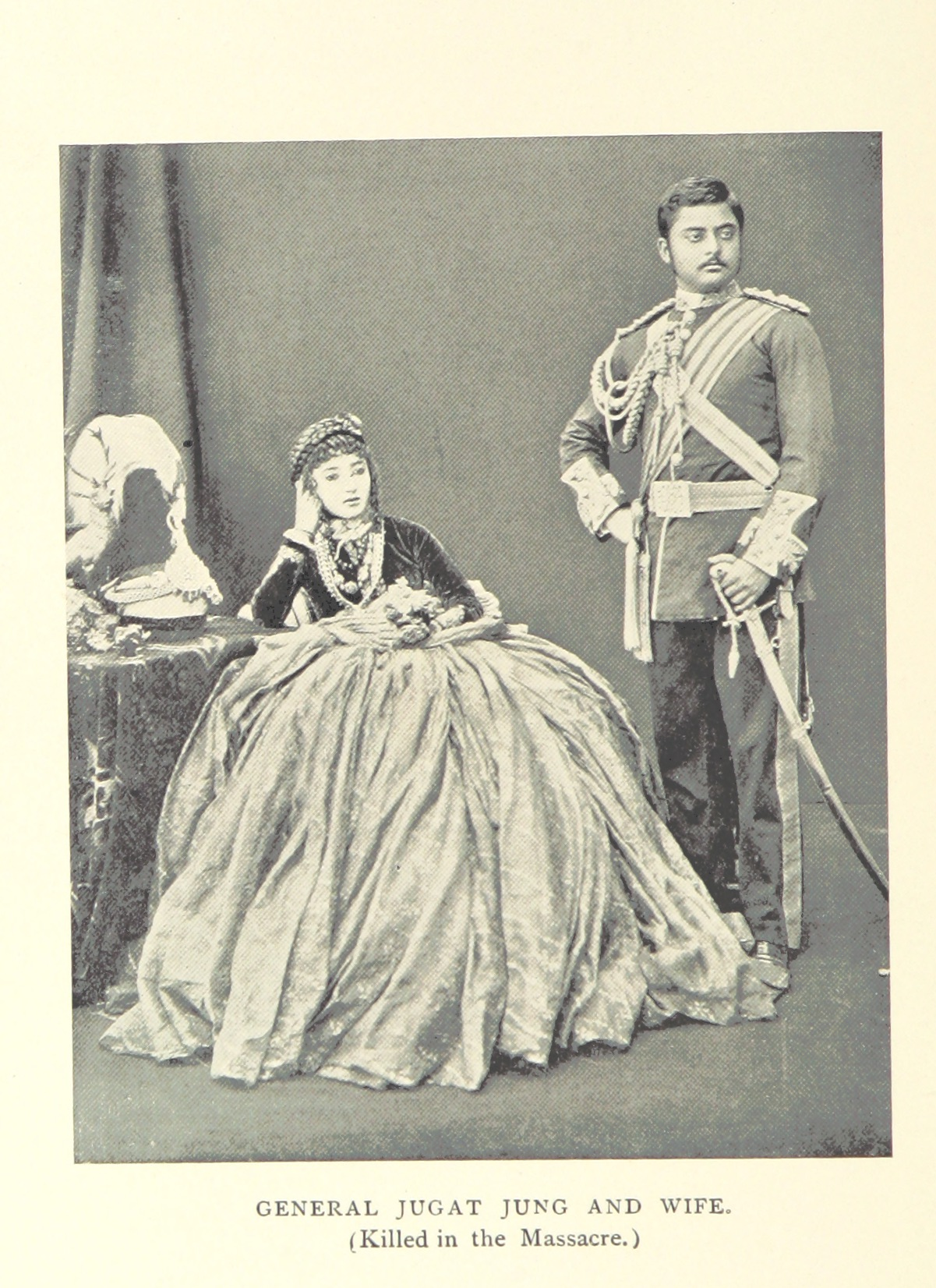 Jagat Jung and wife